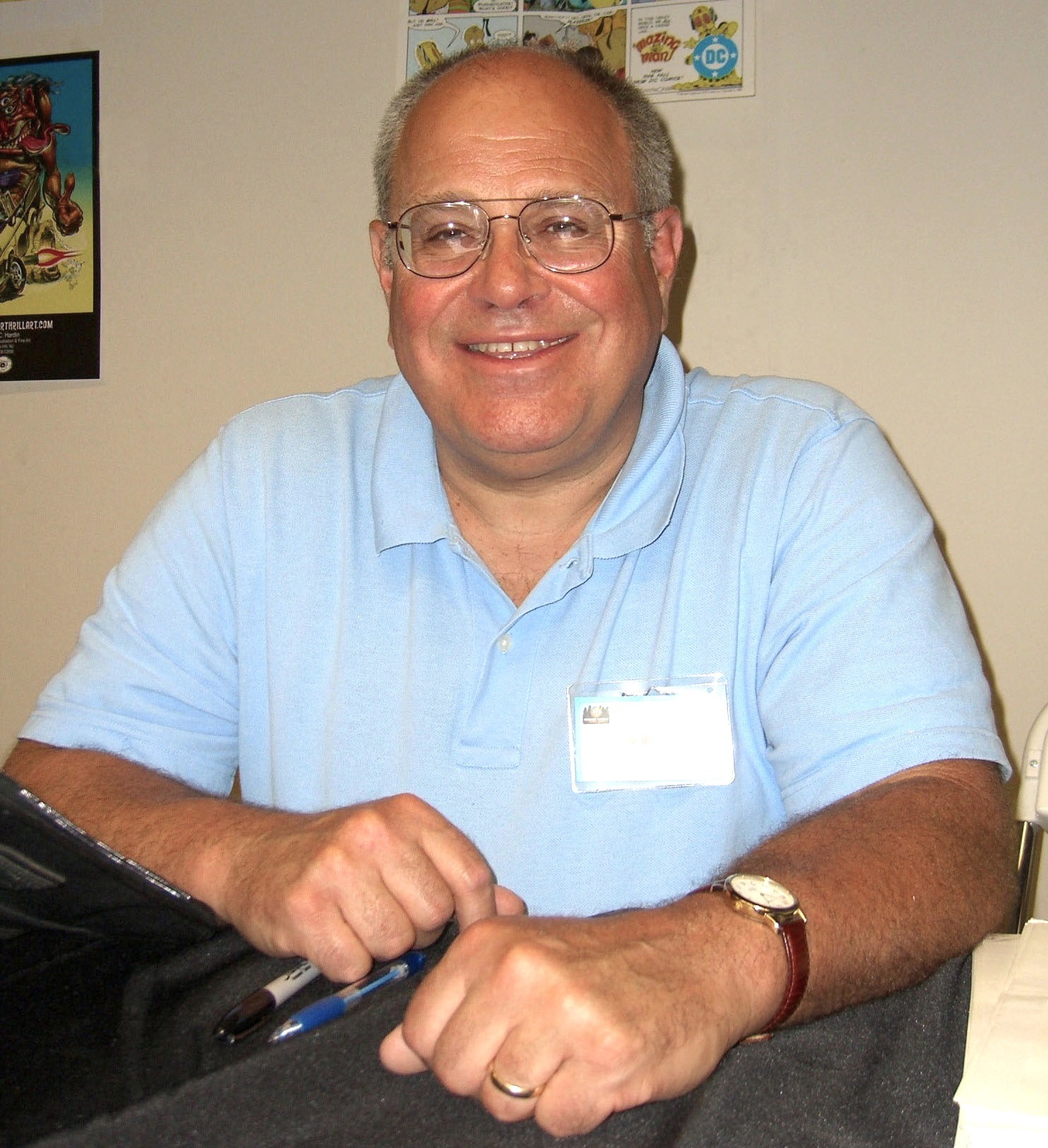 Comics creator Bob Rozakis at the Big Apple Convention in Manhattan, May 21, 2011. This photo was created by Luigi Novi. It is not in the public domain, and use of this file outside of the licensing terms is a copyright violation.